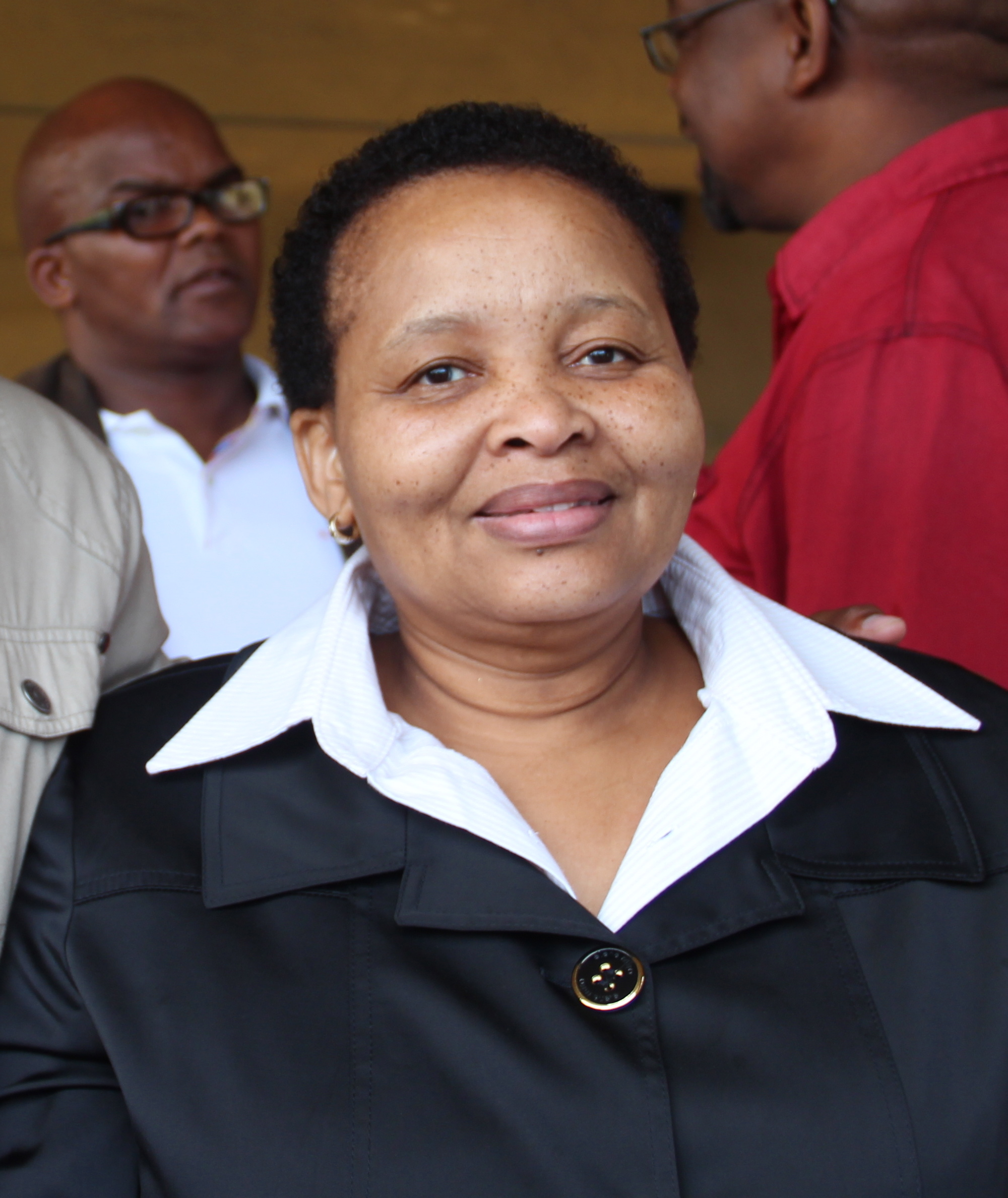 Welcome meets with the Minister for Women, Children and People with Disabilities, Lulu Xingwana, who is working on a national campaign to stop violence against women and girls in South Africa. Terms of use This image is posted under a Creative Commons - Attribution Licence, in accordance with the Open Government Licence. You are free to embed, download or otherwise re-use it, as long as you credit the source as Lindsay Mgbor/Department for International Development'.